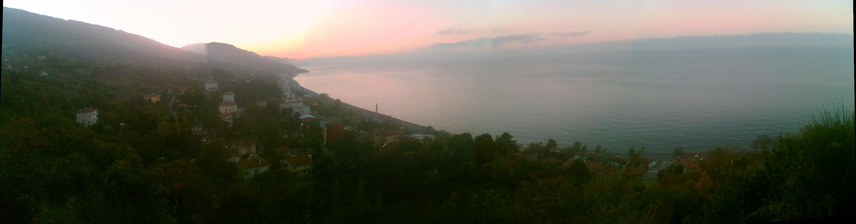 View of Inebolu-4